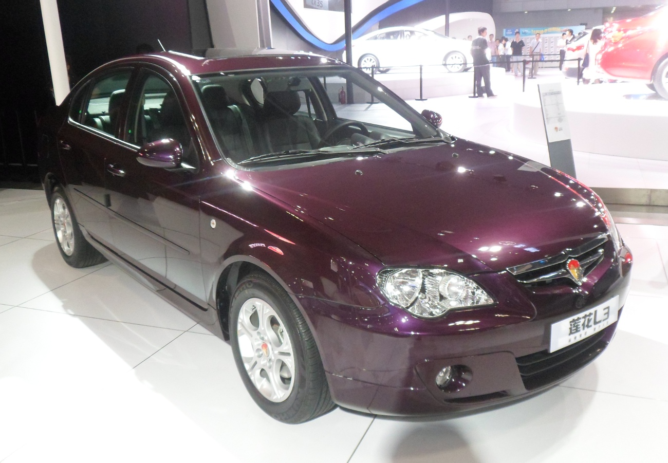 Youngman Lotus L3 sedan photographed at the 2012 Chongqing Auto Show, Chongqing, China.